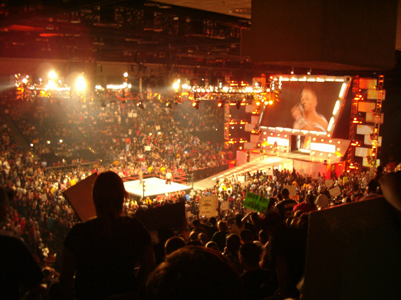 WWE Raw Live at the TCC Arena